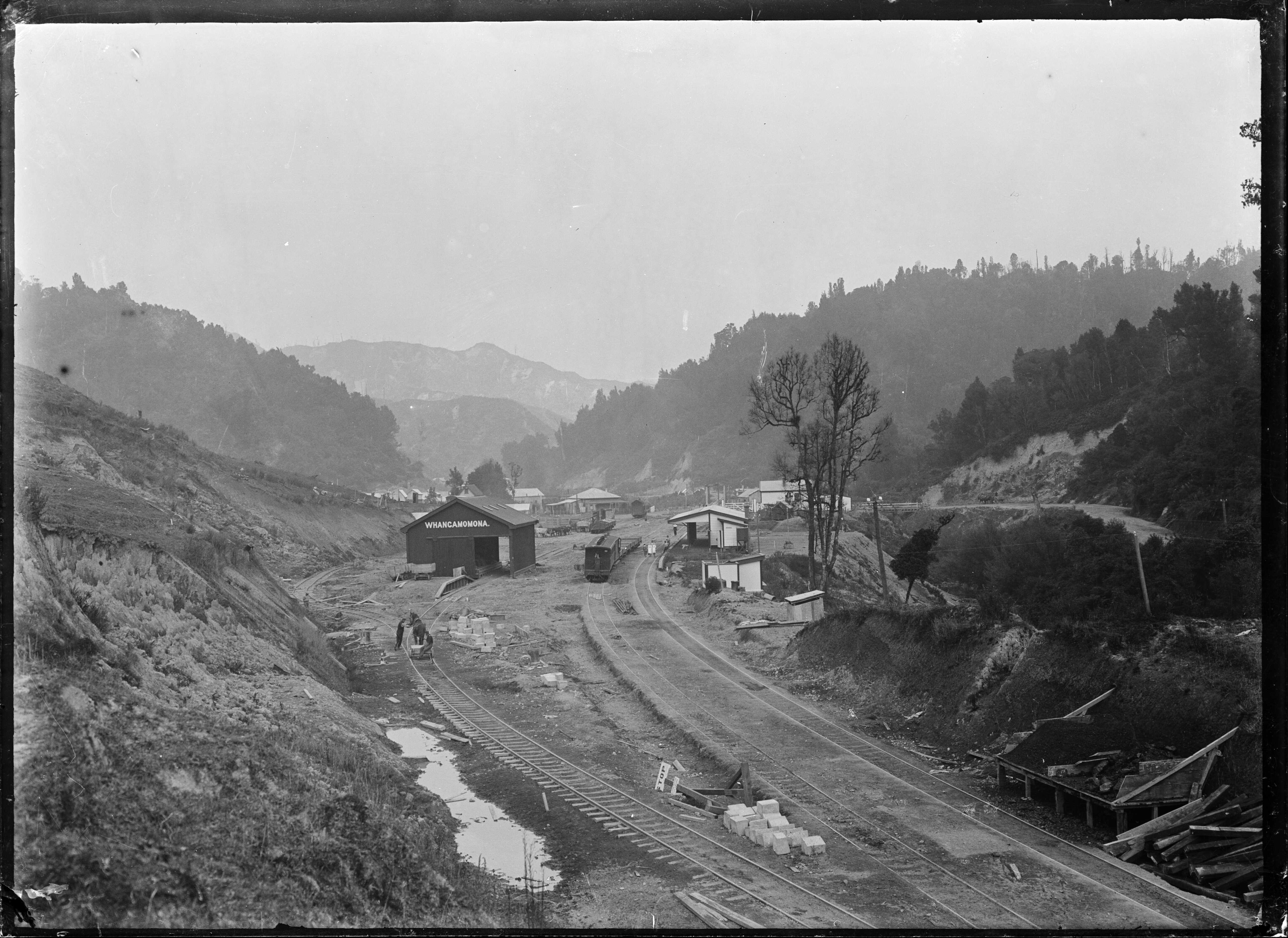 Whangamomona Railway Station. Photograph taken by Albert Percy Godber between 1915 and 1916.